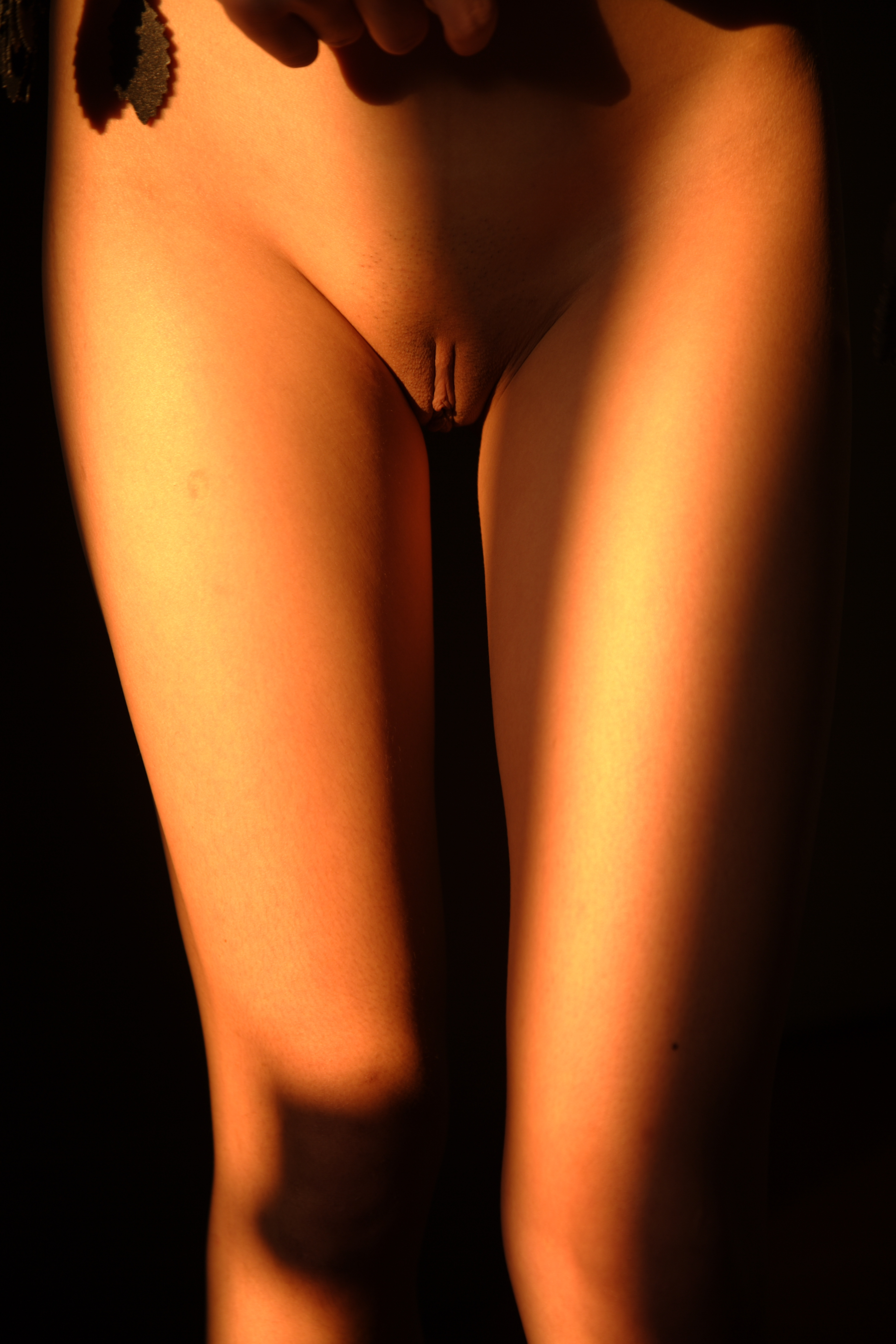 Female genitalia. Work by Dutch artist Peter Klashorst.